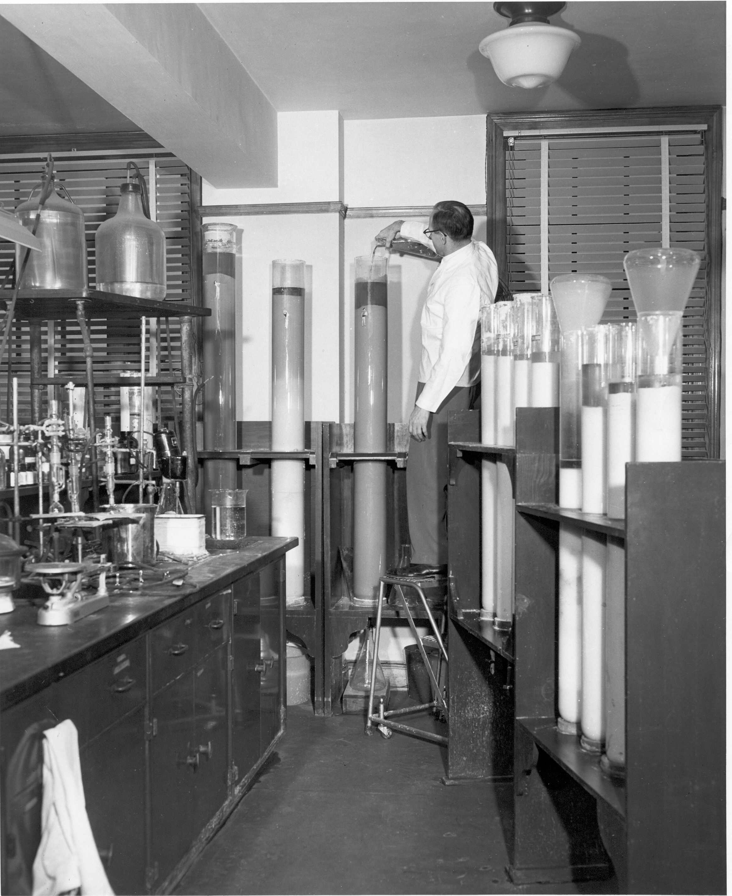 An FDA chemist in the mid-1950s is shown using a column chromatographic apparatus to separate the constituents in a coal tar color analysis.